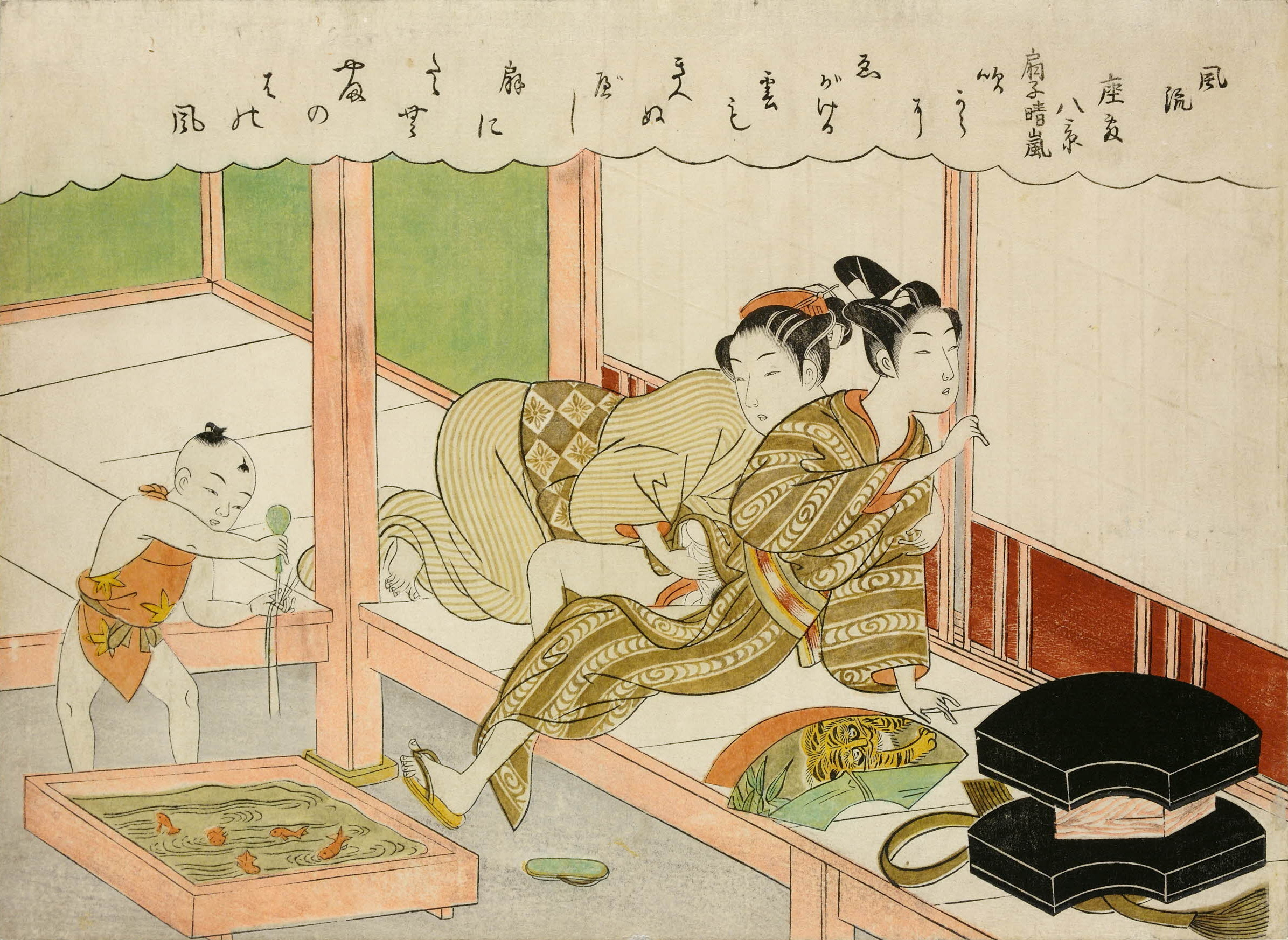 Ukiyo-e print from the Fūryū zashiki hakkei series, cropped from File:Suzuki Harunobu - Fūryū zashiki hakkei - Sensu seiran (British Museum).jpg